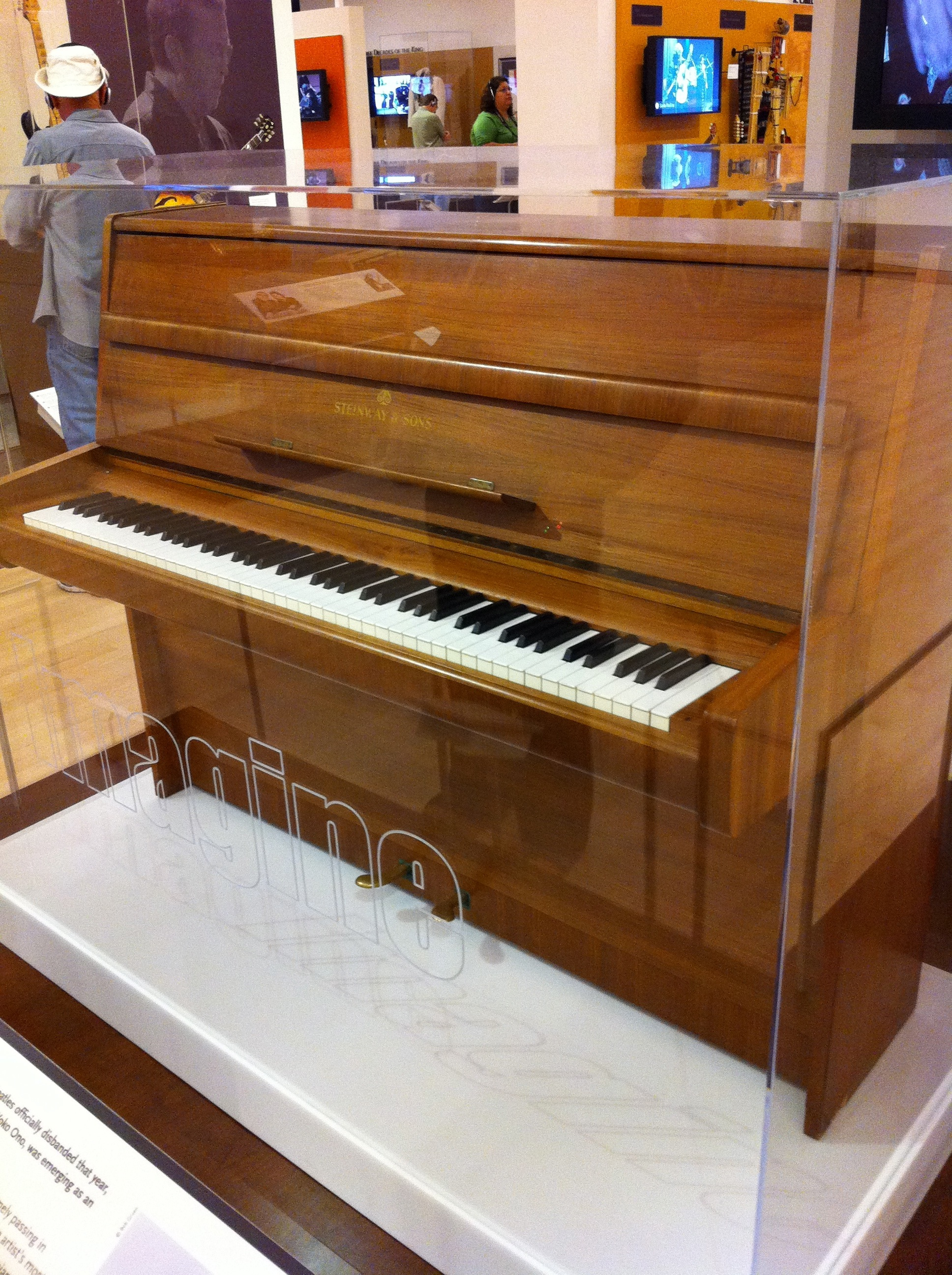 Most people assume John Lennon wrote "Imagine" on the famous white Steinway grand piano that he bought for his wife Yoko on her 38th birthday. John Lennon performed "Imagine" on the white Steinway grand piano, but he wrote it on this Steinway upright piano. The piano is currently on display at the Musical Instrument Museum, - Phoenix, Arizona. It is on loan from pop singer and owner George Michael.